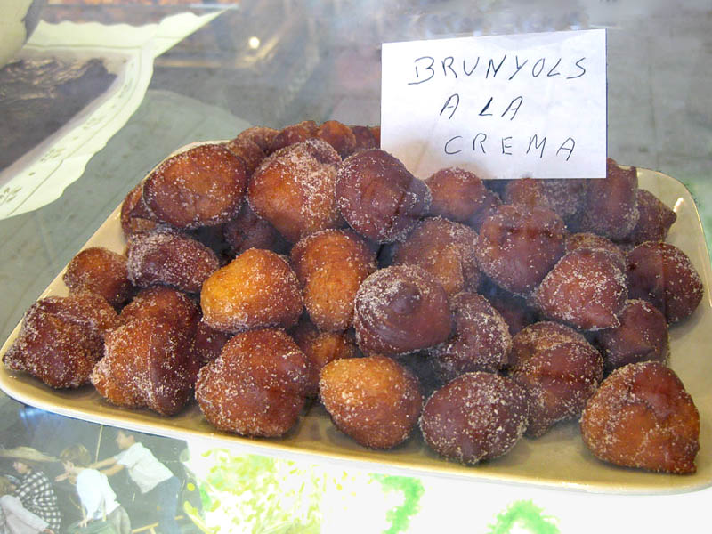 Bunyols de Banyoles (Pla d'Estany, Catalunya) Bunyols from Banyoles, typical Catalan doughballs eaten as a dessert.